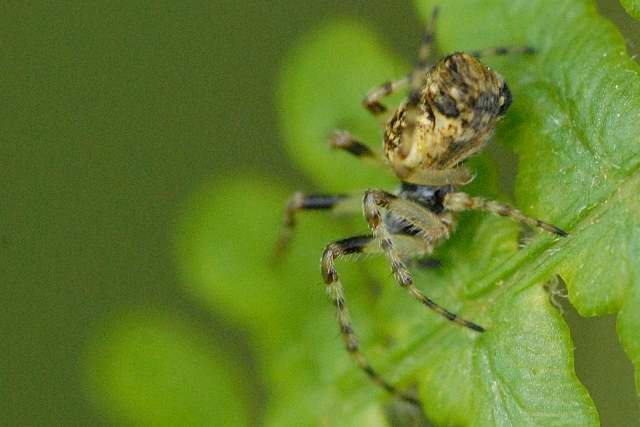 Cyclosa oculata from Commanster, Belgian High Ardennes .